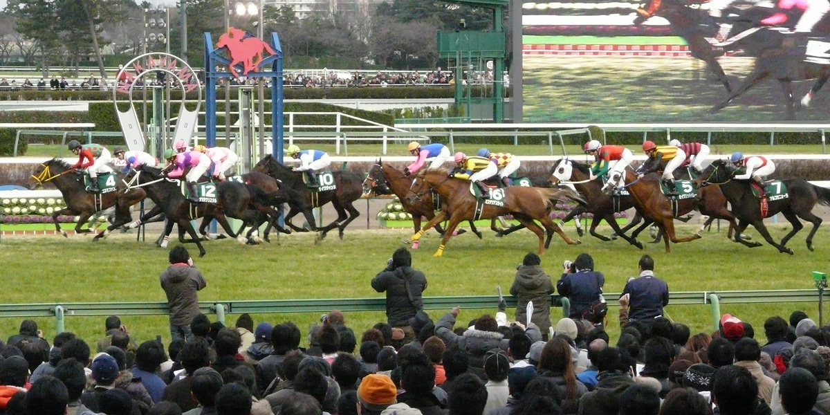 Nakayama-Racecourse11